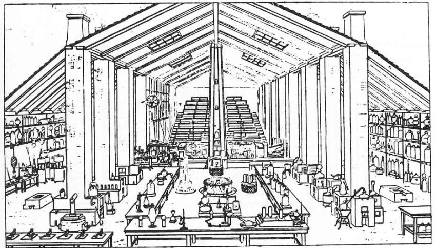 Drawing of the Edinburgh laboratory of David Boswell Reid, Scottish chemist, from Reid's Brief Outline Illustrations of the Alterations in the House of Commons (1837).